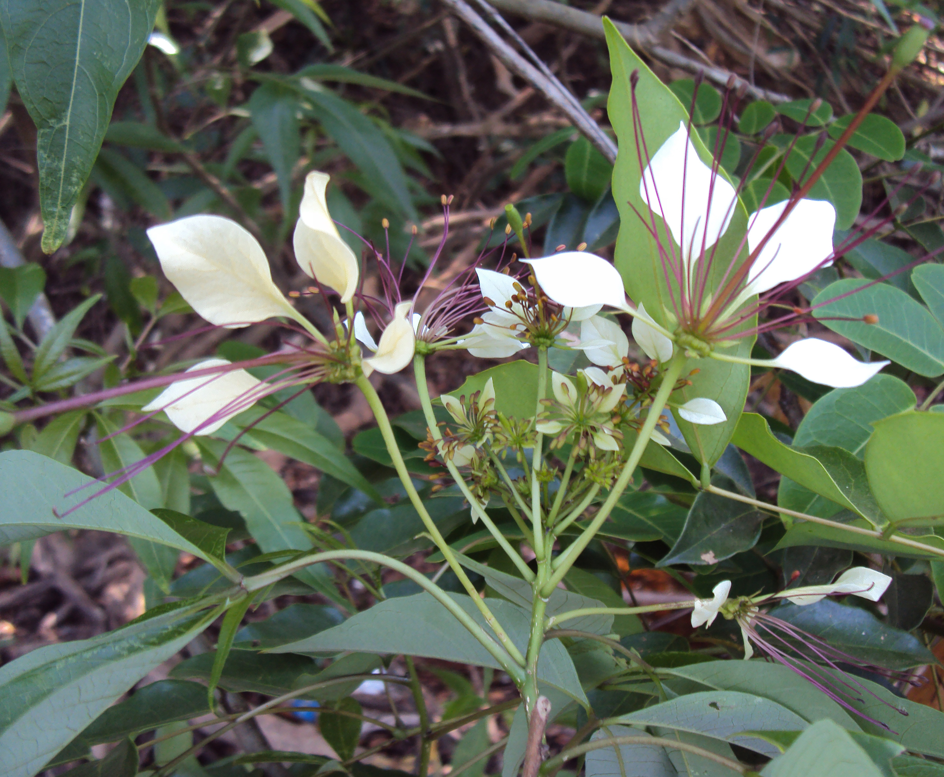 Crataeva magna